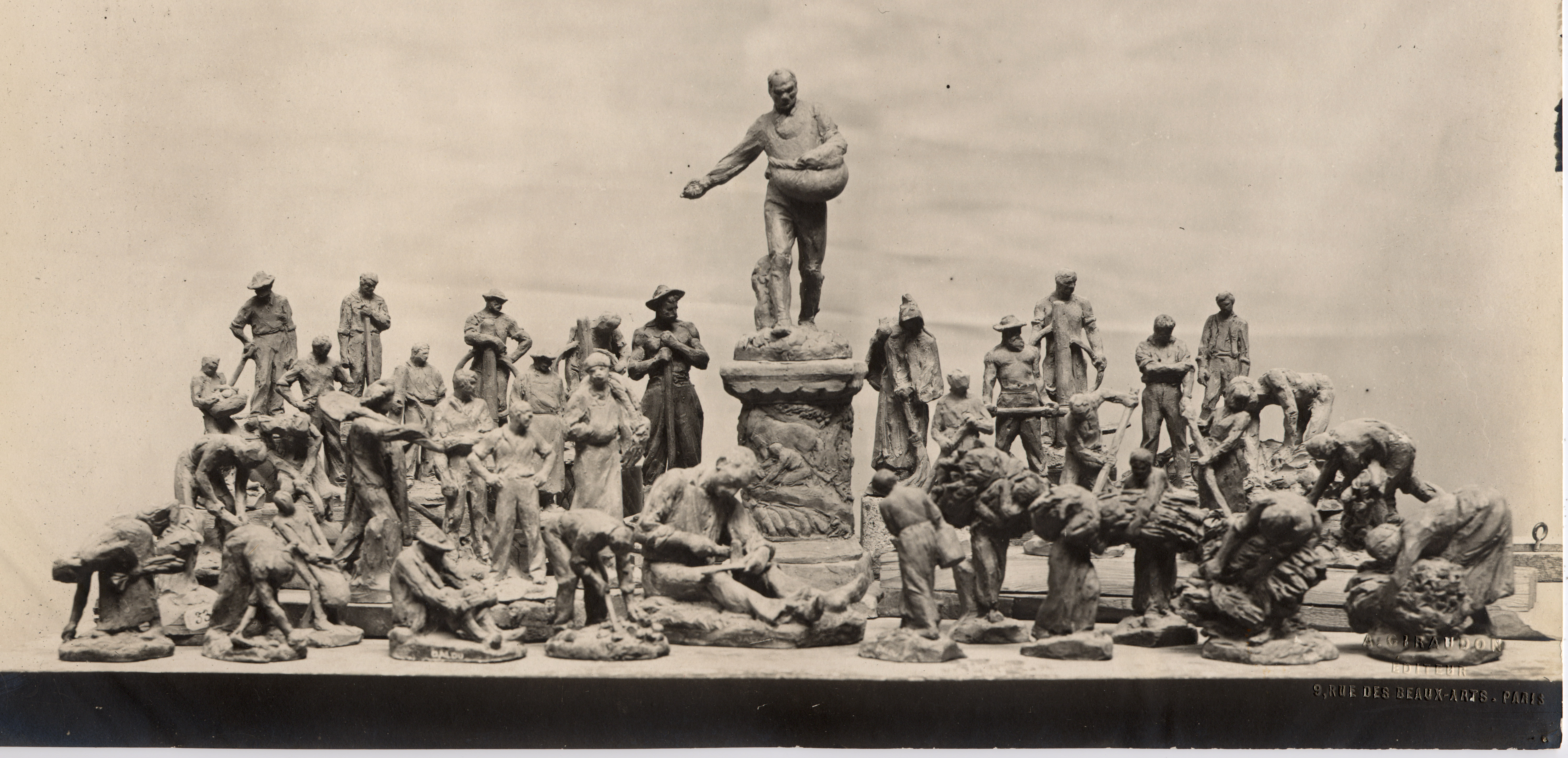 Terracotta squetches for the projected Monument to Labour by Jules Dalou. Photographed in his studio, impasse du Maine in Paris, between 1902 and 1904. The sculptures are now in the Petit Palais Museum in Paris.